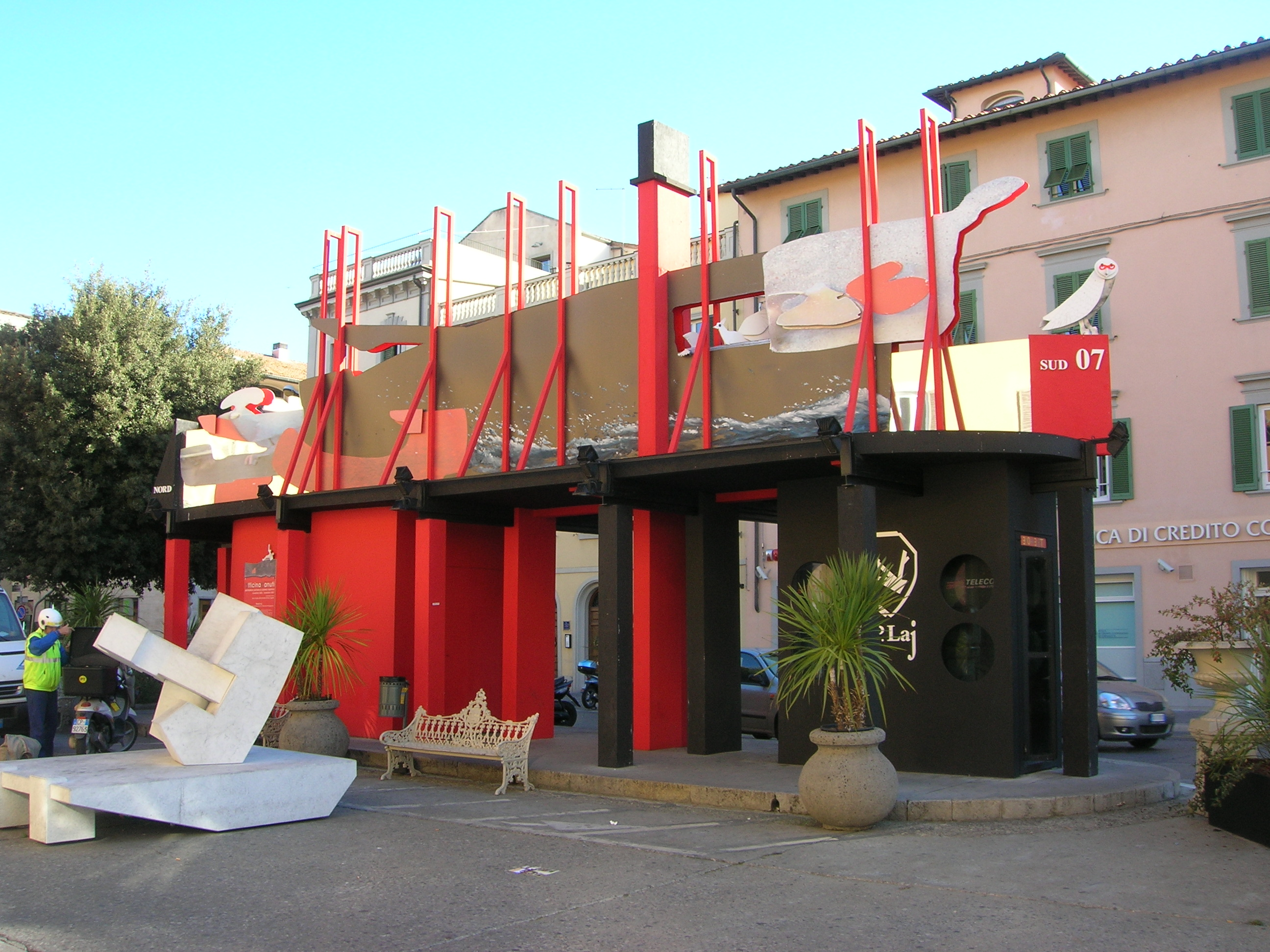 Pontedera - Piazza Martiri della Libertà in early 20th, now artwork removed - Officina Canuti